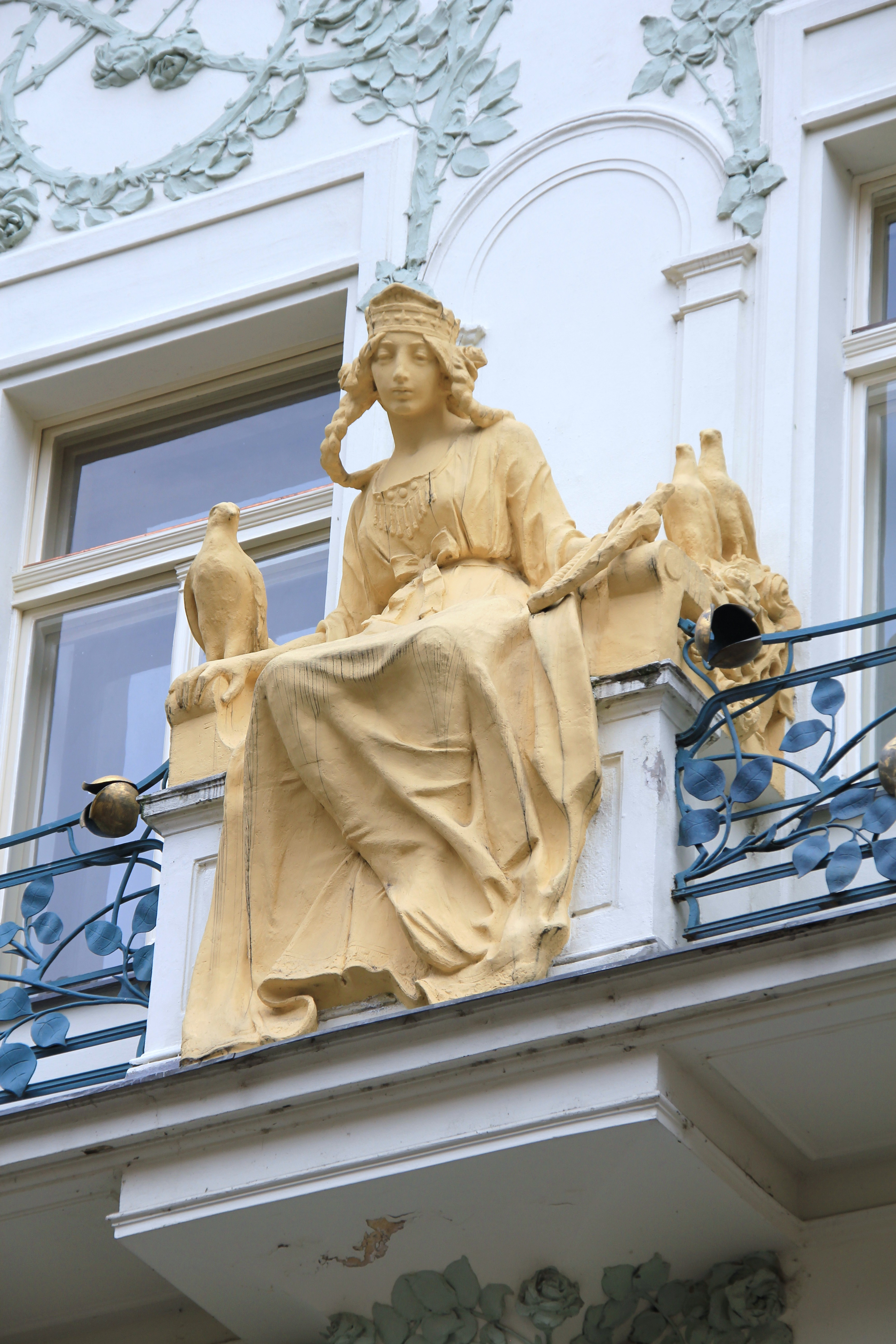 Karlova Street princess Libuse